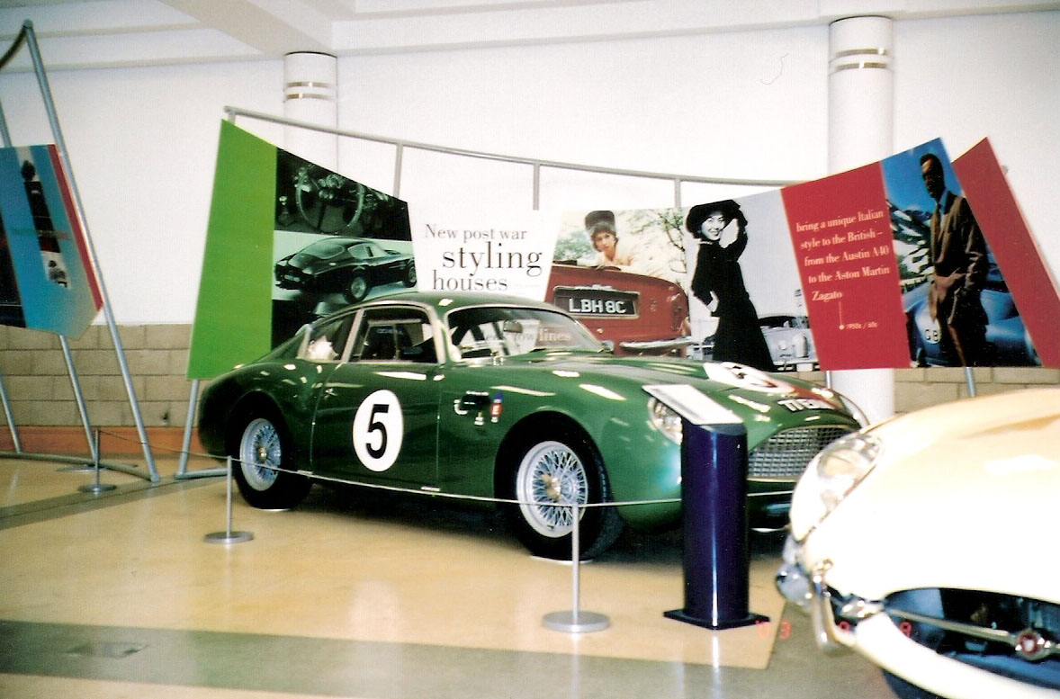 Taken in 2003 at the Heritage Motor Centre in Gaydon. Unfortunately poor quality due to cheap film camera then transfer to CD.